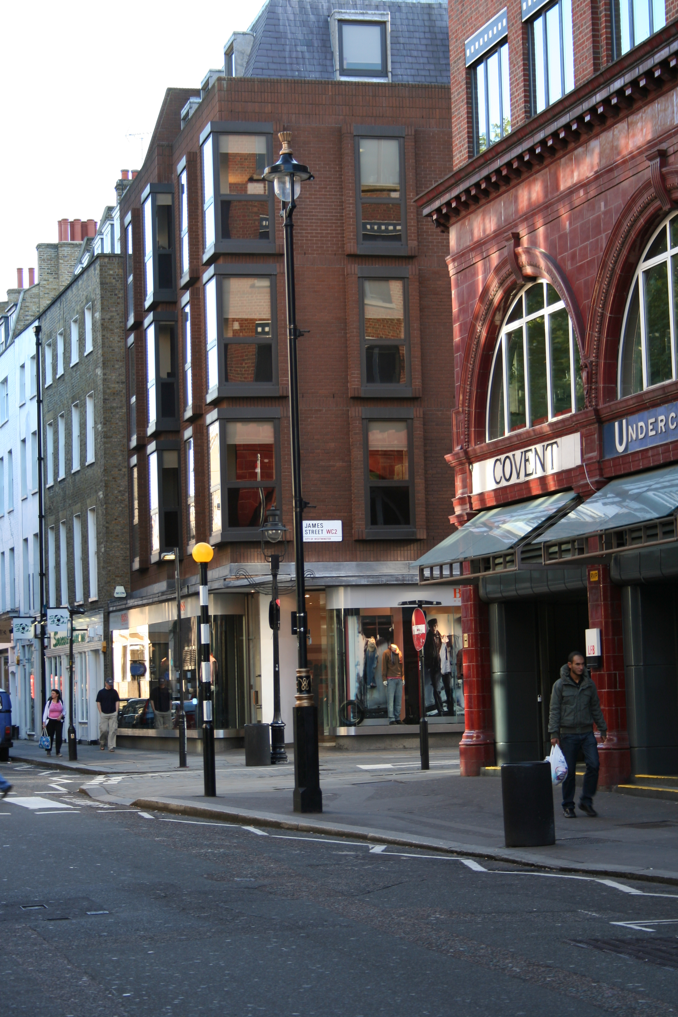 A view of Long Acre in London